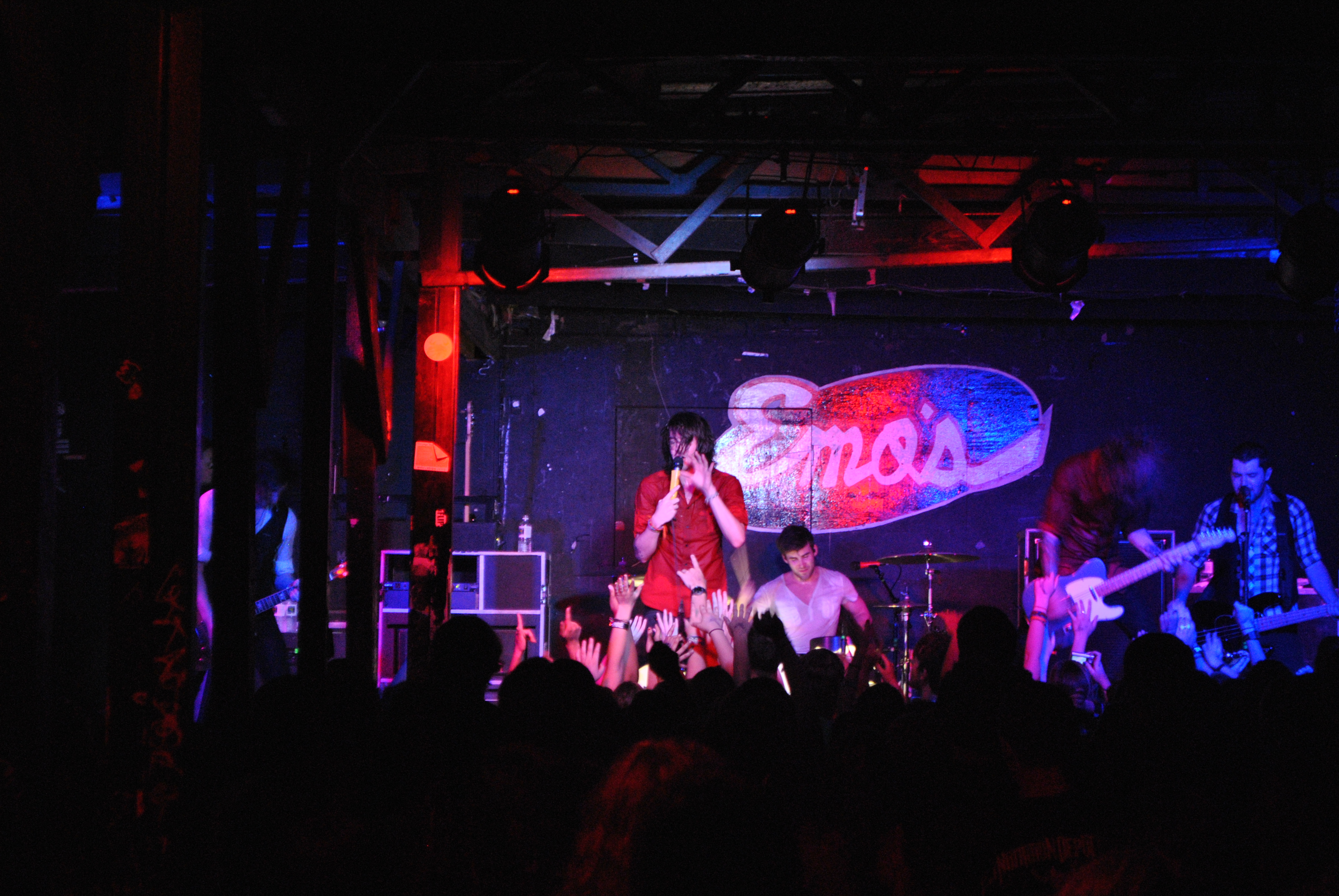 American band Mayday Parade live in concert in 2010